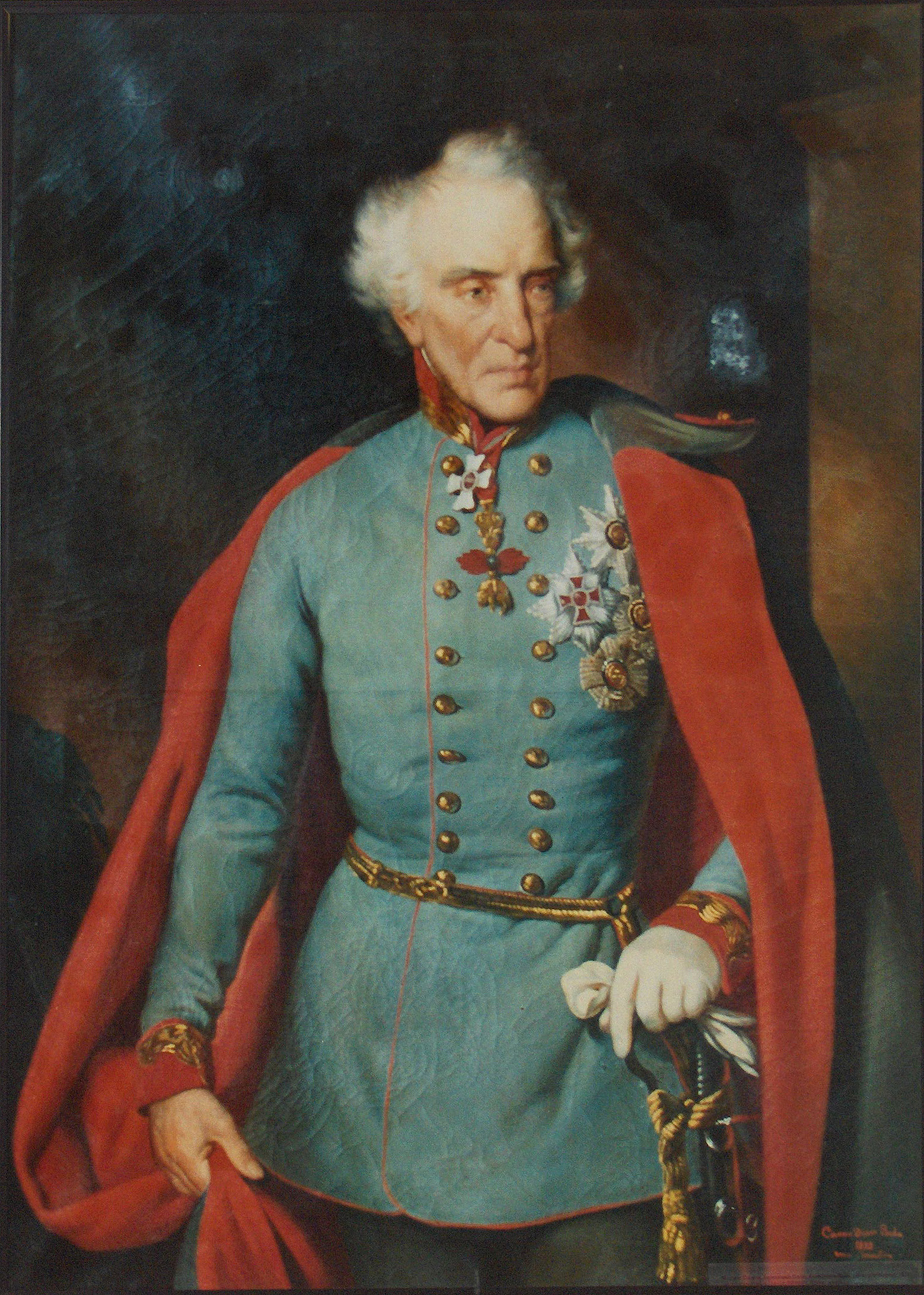 Austrian Field Marshall, Count Laval Nugent (1777-1850); Trsat Castle, Rijeka, Croatia